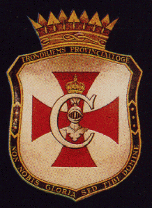 The coat of arms of the Provincial Lodge of Trondhjem, founded in 1915, in Trondhjem, Norway.